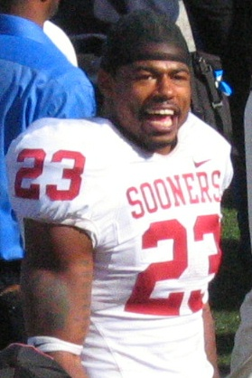 Allen Patrick as a Sooner in October 2006